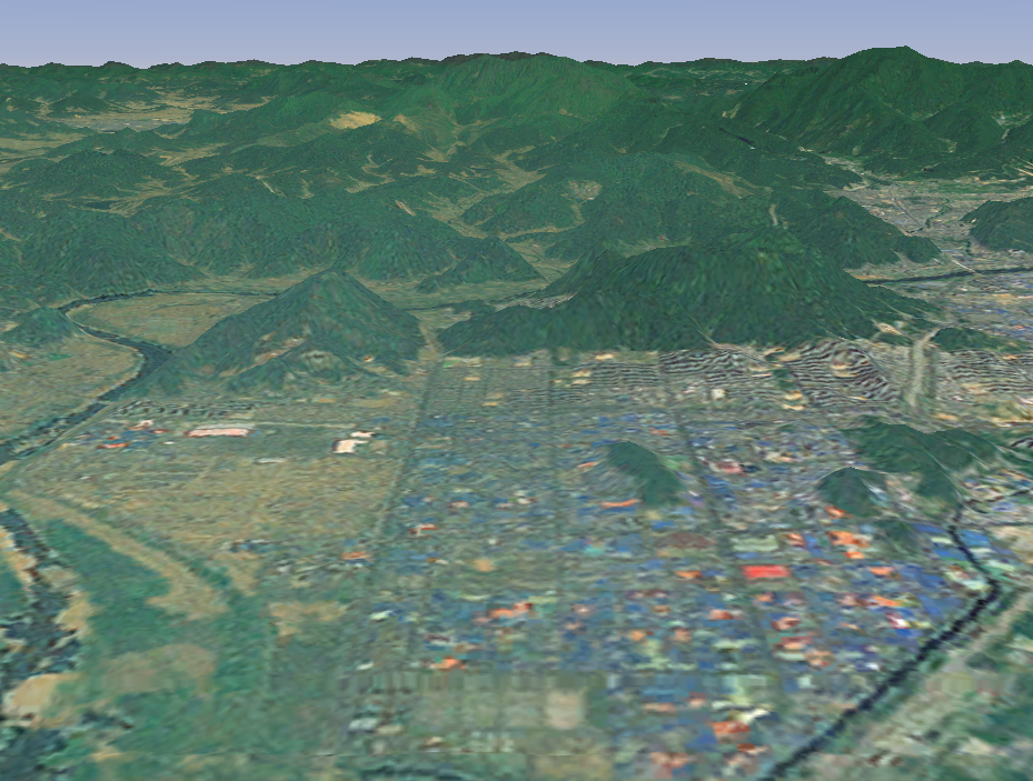 satellite view of Seongseo Industrial Complex